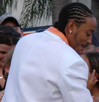 MIAMI (Aug. 29, 2004) -- MTV 2004 Video Music Awards performer Ludacris signs autographs for Coast Guard personnel and dependants onboard Integrated Support Command Miami. Pependeants lined up to see the stars two hours before they arrived at the Coast Guard base to be escorted on yachts to the American Airlines Arena. USCG photo by PA2 Anastasia Burns.